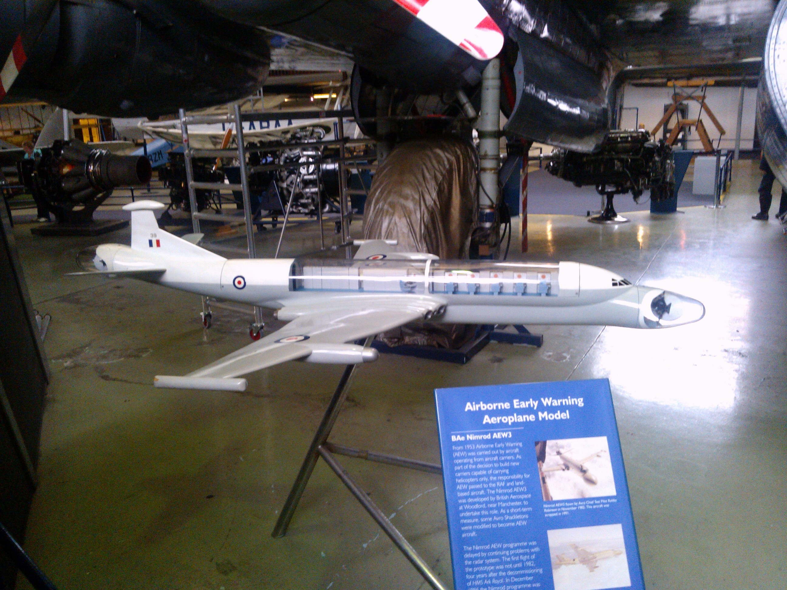 Manufacturer's model of BAe Nimrod AEW3